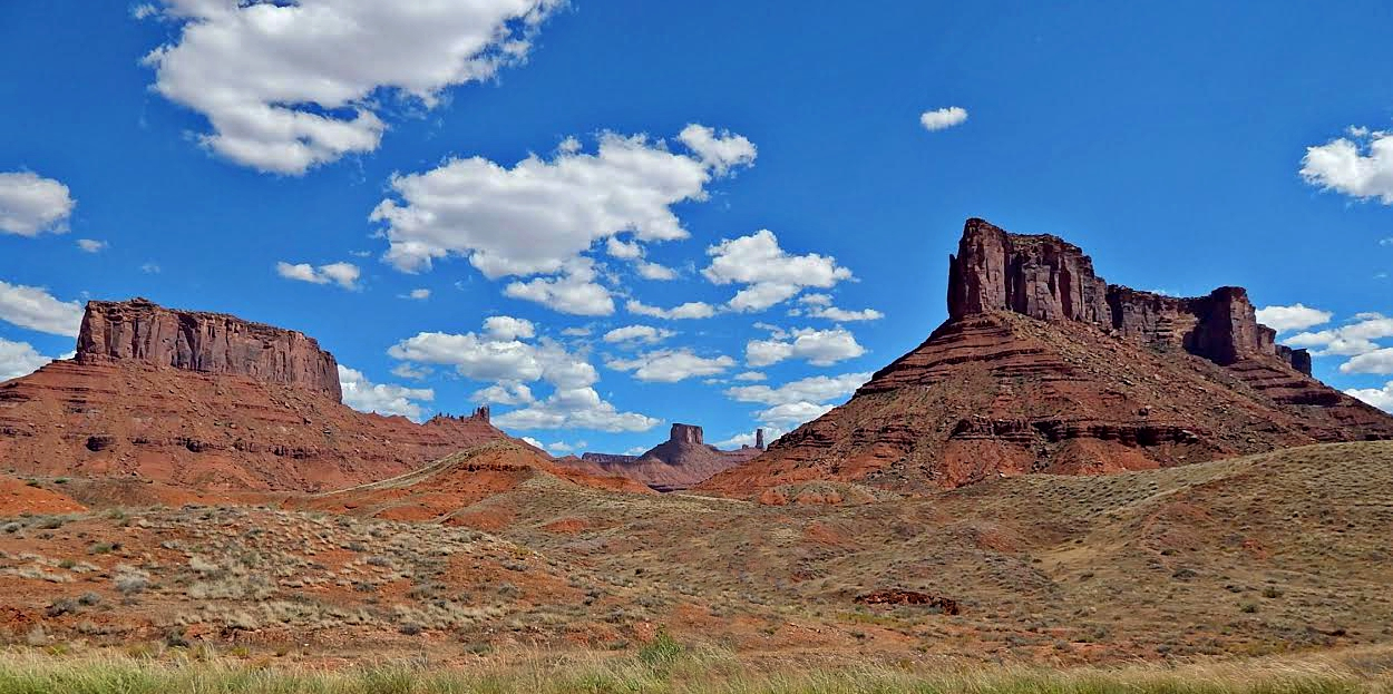 Convent Mesa, aka The Convent on left with Parriott Mesa on right. Near Moab and Castle Valley, Utah seen from State Route 128